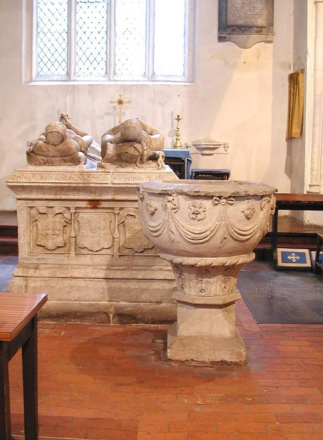 St Michael and All Angels parish church, Lambourn, Berkshire: 17th-century baptismal font and late 16th-century tomb. Sir Thomas Essex and his wife Margaret. Lady Essex was the daughter of Lord Sandys (Sandes) of the Vyne, Hampshire, and the tomb shows symbols of both families. On the helm of Sir Thomas, on which he rests his head, is a fiery salamander, crest of the Essex family, while his feet rest upon a dolphin. Text from[1] Description edited from John Footman's 'History of Lambourn Church' (1894) & P.S. Spokes' 'Coats of Arms in Berkshire Churches: Lambourn' (1935): This monument in Lambourn Church is thus described by Ashmole: "In the middle of the Chapel on the North Side of the Chancel is a fair raised monument, whereon lye the Statues in full Proportion, according to the Life, of a Knight and his Lady; he in his Surcoat of Arms over his Armour, resting his Head on a Helmet and Crest, viz.: an Eagle's Head with a Firebrand [ie. a broken hawk's leg] in his Mouth, and his Feet on a Dolphin bowed; she in her usual Habit and Attire, her Feet resting on a Goat with Wings [ie. a griffin, the Sandys family crest], and this Epitaph circumscribed on the Ledge thereof: "Here lyeth the Bodies of Thomas Essex, Knight, who deceased the 29th Day of August, in the Yere of Our Lord God, One Thousand Five Hundred Fifty and Eight, and Dame Margaret his Wif."" On panels round the tomb are several coats of arms, which the following extract will explain: "Essex of Lamborn[e]: Arms: Quarterly of 6: , 1 and 6, Azure, a chevron Ermine, engrailed Or, between three eagles displayed, Argent; (2) Sable, a chevron Or, between three crescents, Ermine (Babthorpe); (3) Argent, on a chief Or, three fleurs-de-lis Gules (Rogers); (4) Argent, a fess Sable, a chief Gules (Cockburne); (5) Ermine, a chief per pale indented Or and Gules (Shottesbrooke)."